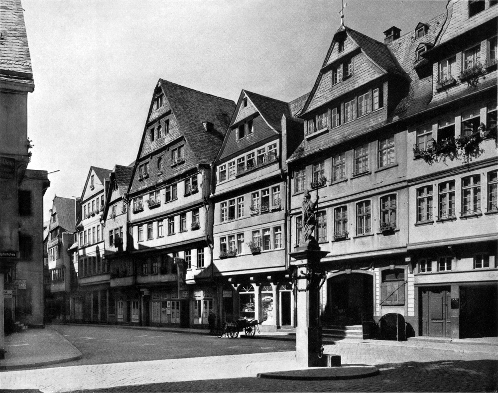 Frankfurt on the Main: Heilig-Geist-Plaetzchen (little place of the Holy Ghost) in the old town as seen to the east